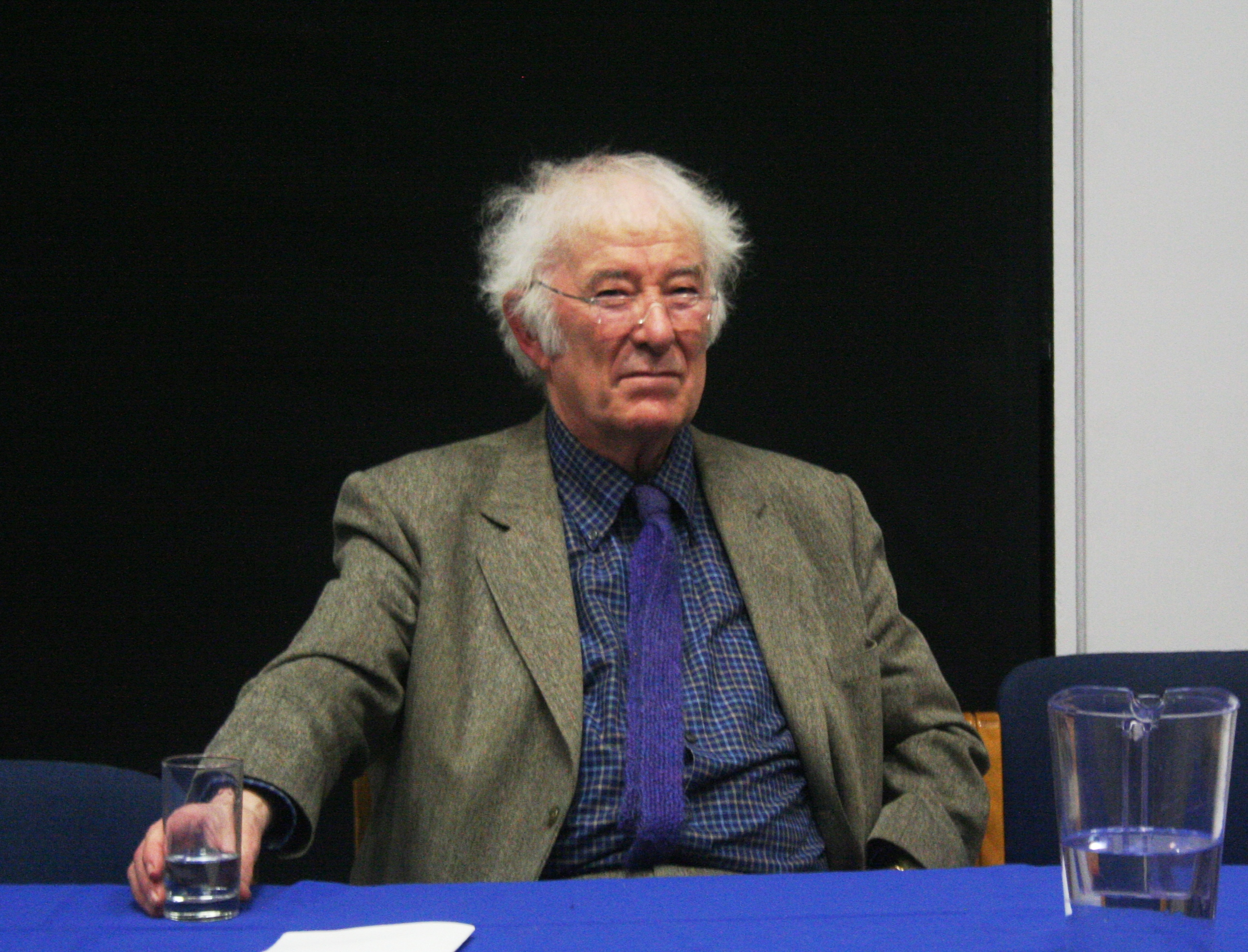 Picture of the Irish poet and Nobel Prize winner Seamus Heaney at the University College Dublin, February 11, 2009.